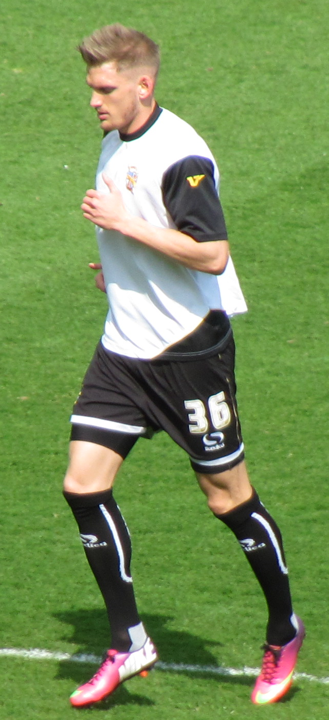 Pictured during the 2-2 draw between Port Vale and Northampton Town on 20 April 2013.